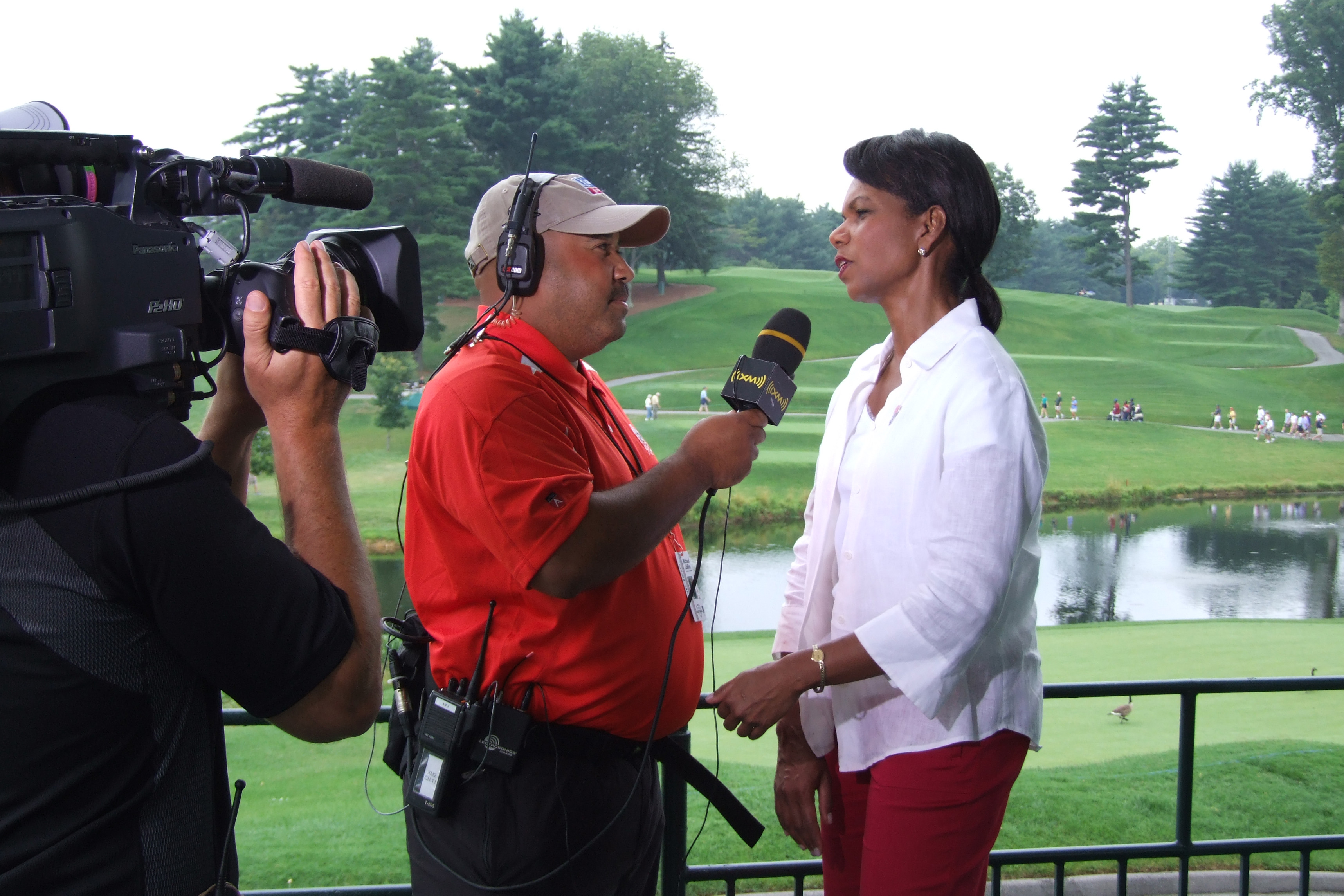 XM Satellite sports reporter Michael Collins interviews Secretary of State Condoleezza Rice during the AT&T National Golf Tournament, July 5, 2008, in Bethesda, Md. Tournament organizers, including golf champion Tiger Woods, son of an Army Green Beret, distributed 30,000 free tickets to troops.